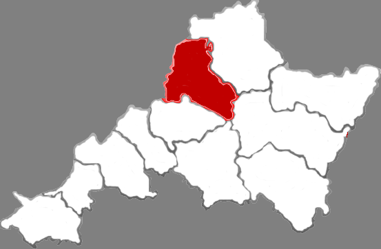 Location of Yuci district in JinzhongCity, China